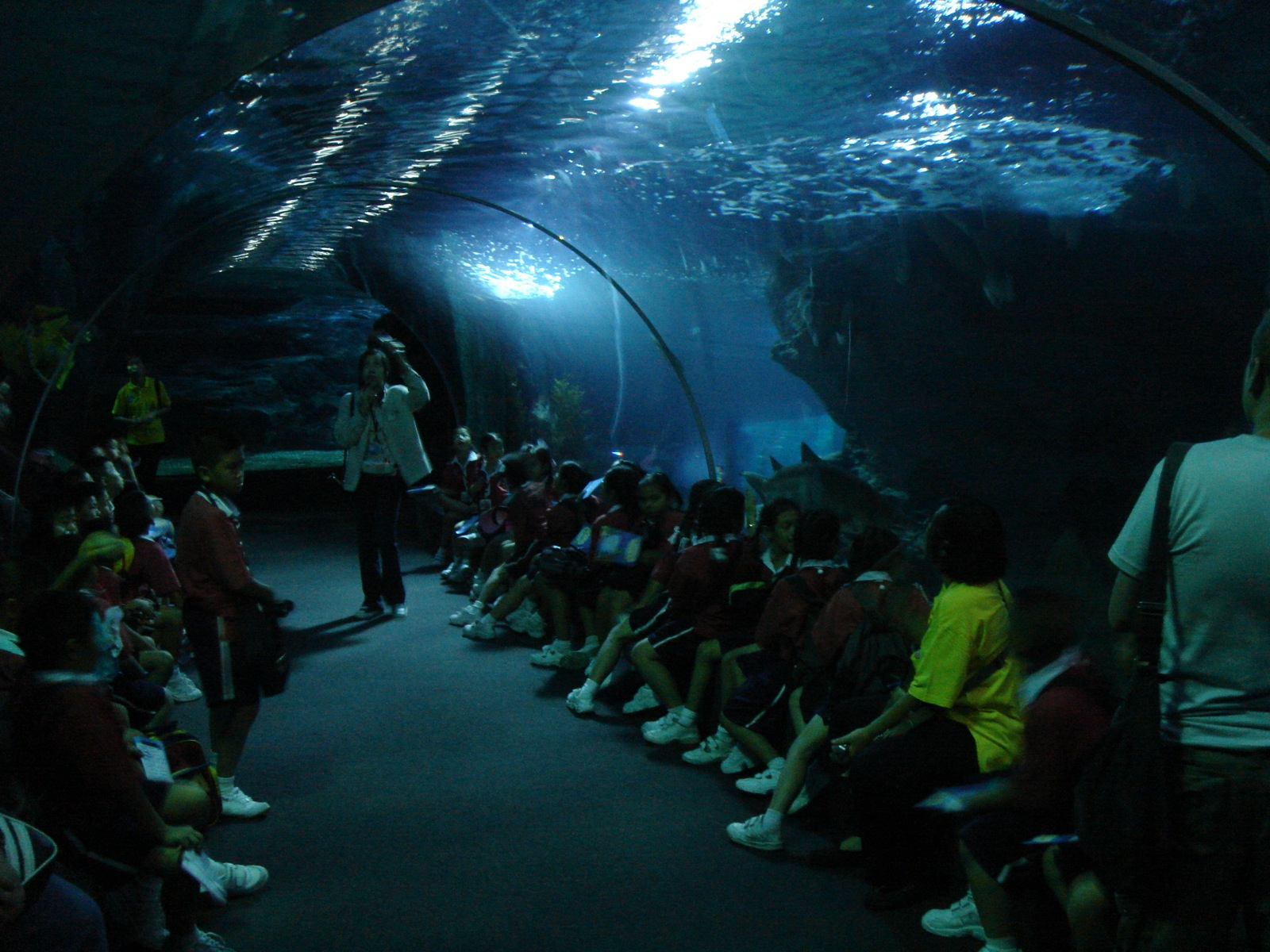 Siam Ocean World